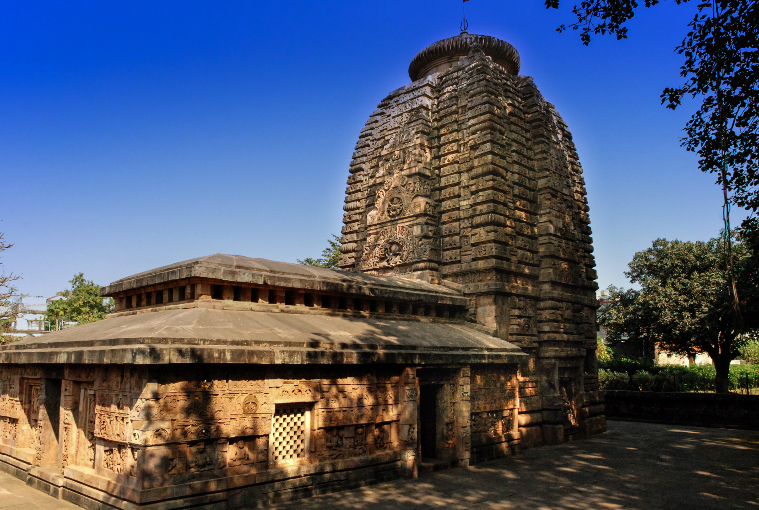 Parashurameshvara Temple - also spelt Parsurameswar, located in the East Indian city of Bhubaneswar, the capital of Orissa, is considered the best preserved specimen of an early Orissan Hindu temple dated to the Shailodbhava period between the 7th and 8th centuries CE. The temple is dedicated to the Hindu god Shiva and is one of the oldest existing temples in the state. It is believed to have been built around 650 CE in Nagara style and has all the main features of the pre-10th century Orissan-style temples